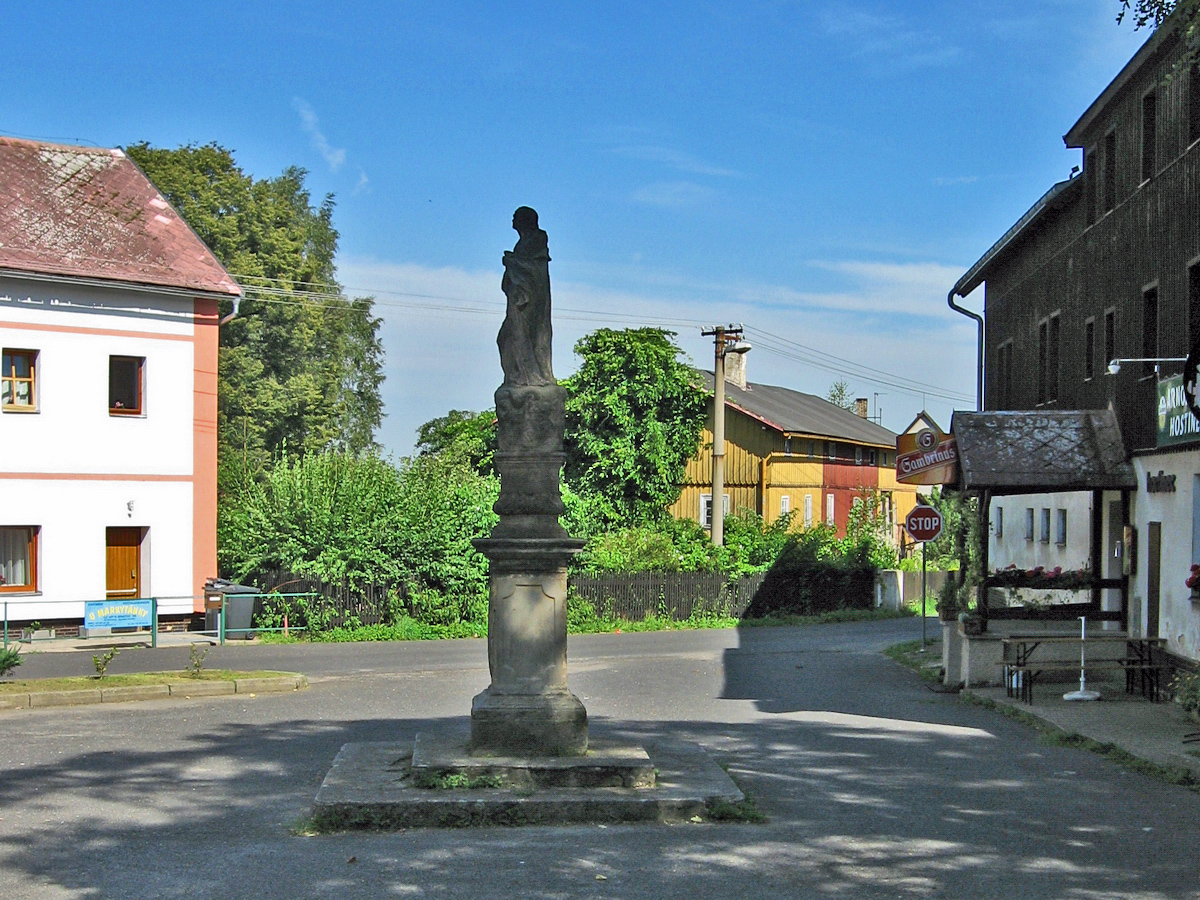 village Arnoltice